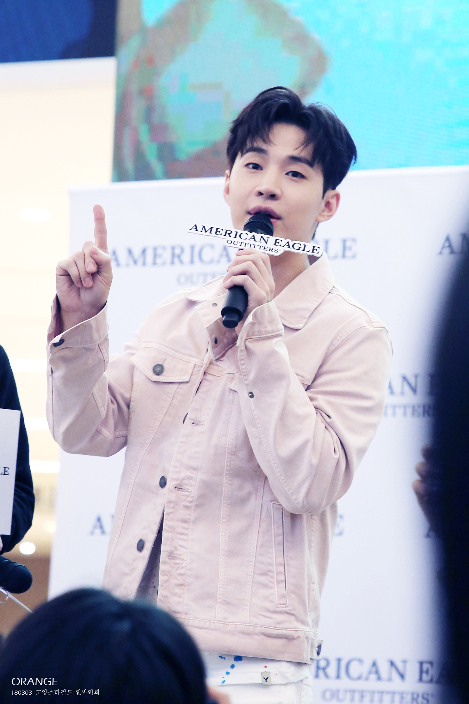 헨리(Henry),American Eagale FanSign,2018